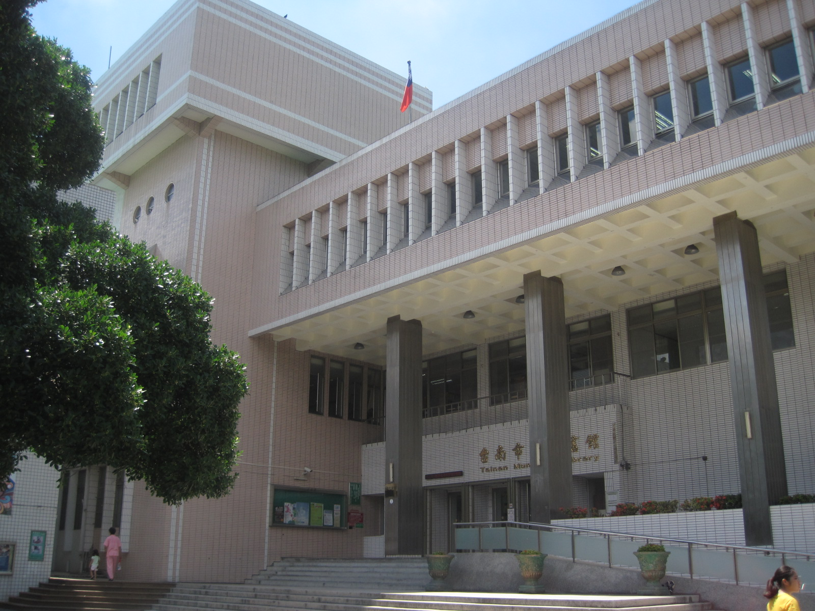 Tainan Municipal Library